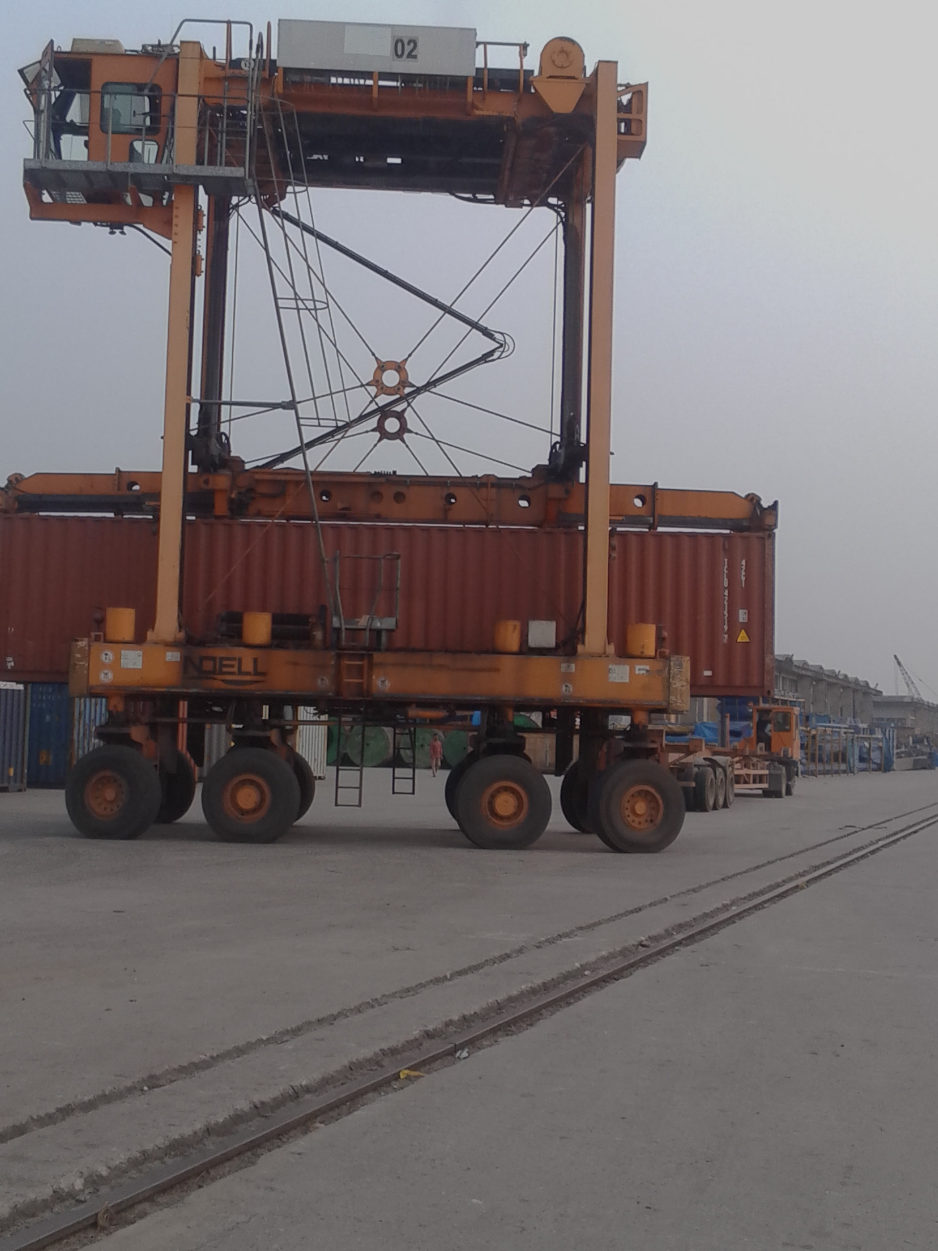 this is crane vehicle which is used to carry the large container and heavyweight object